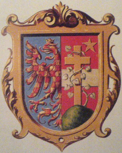 Coat of arms of Mariánské Hory.